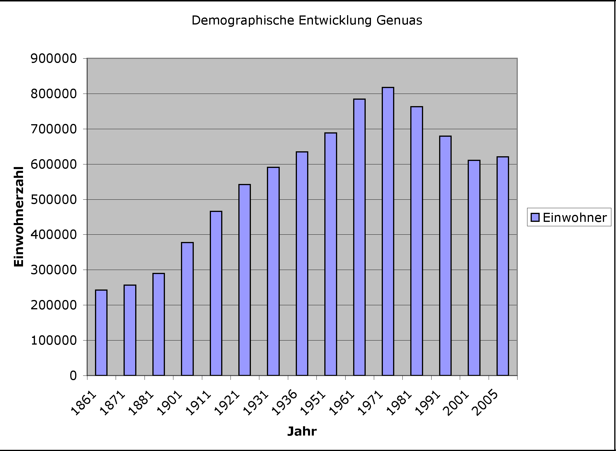 Demographic Statistic of the Italian City of Genova